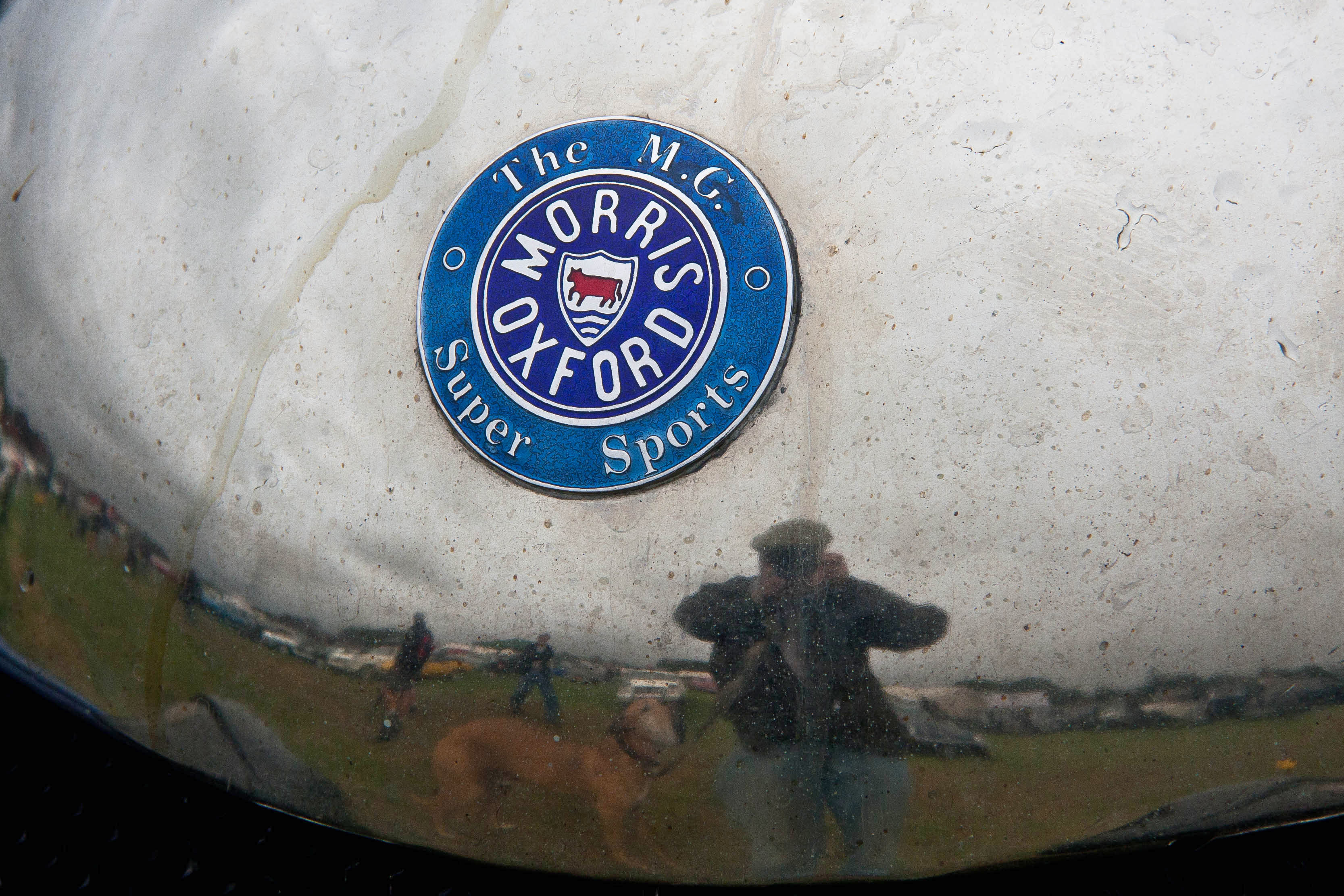 Enamelled badge on an early MG car a.k.a. Me, Ruben And A Morris Oxford